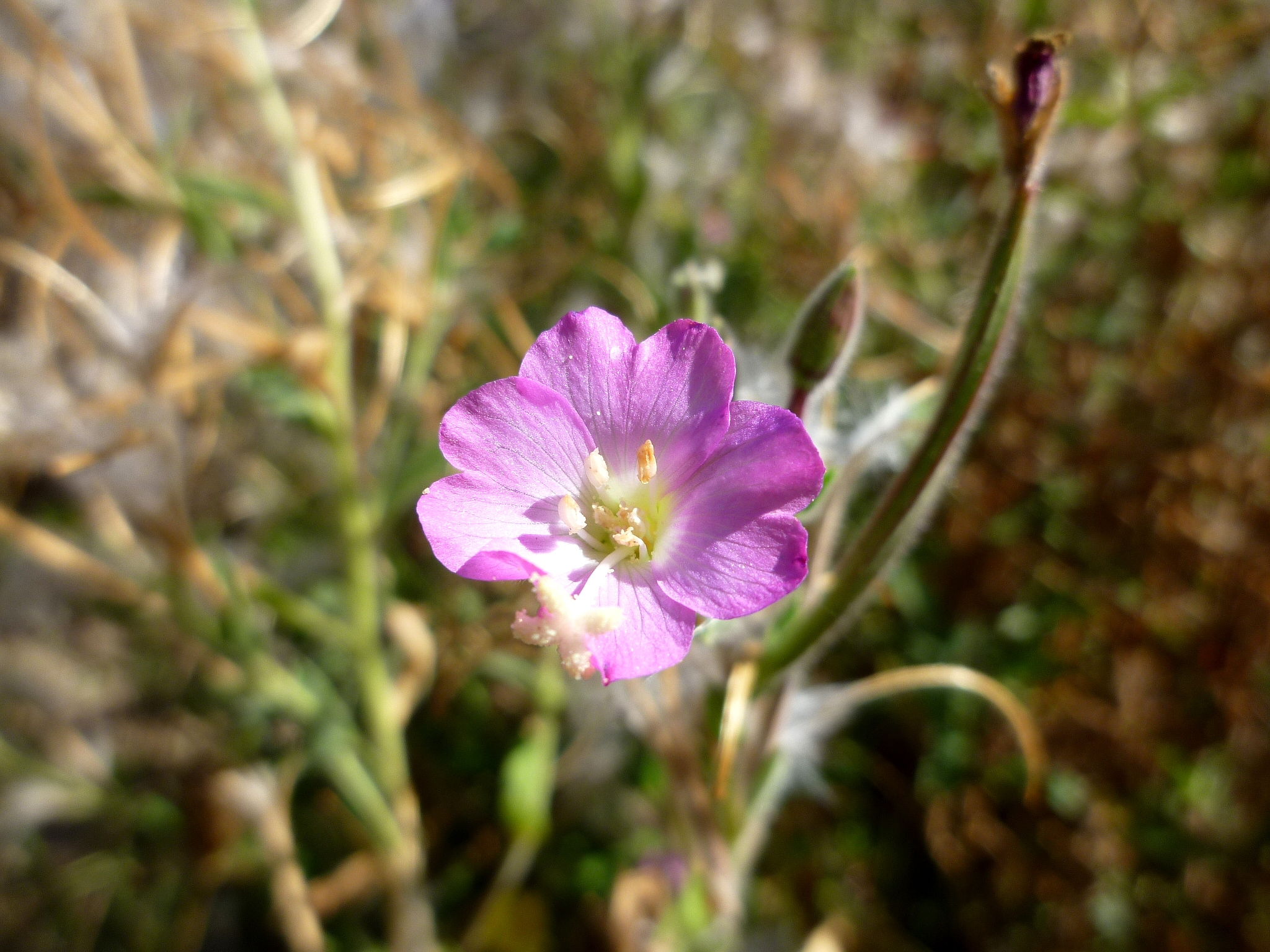 Epilobium hirsutum. In Torà (Segarra- Catalunya). On 570 m. altitude